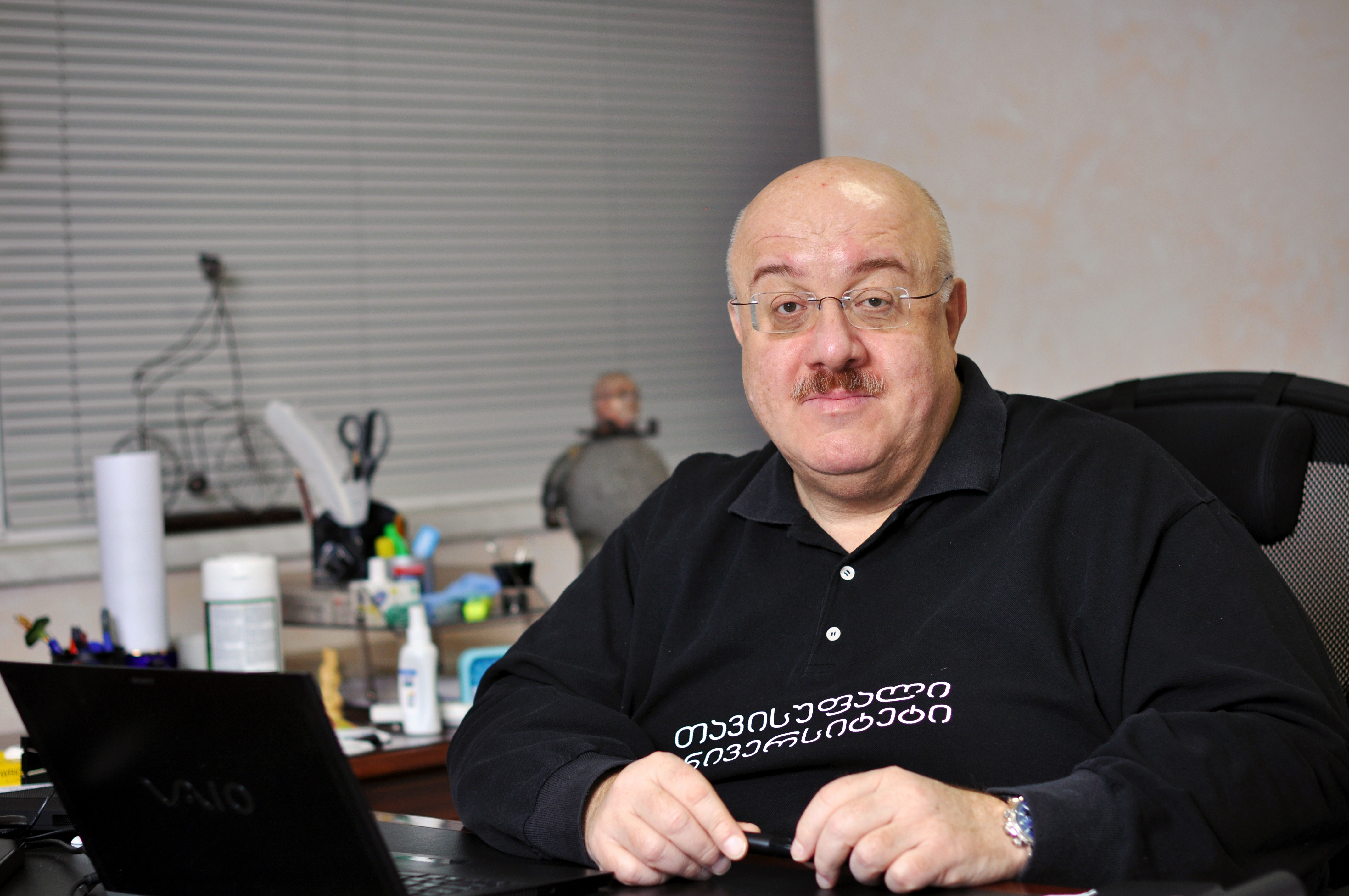 Portrait of Kakha Bendukidze, Georgian statesman and businessman. The picture shot in his cabinet in Tbilisi.